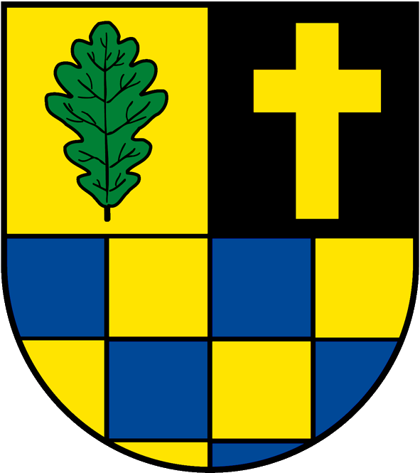 Coat of arms of Dickenschied